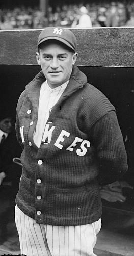 Urban Shocker, New York AL (baseball) CALL NUMBER: LC-B2- 6350-8[P&P] REPRODUCTION NUMBER: LC-DIG-ggbain-37985